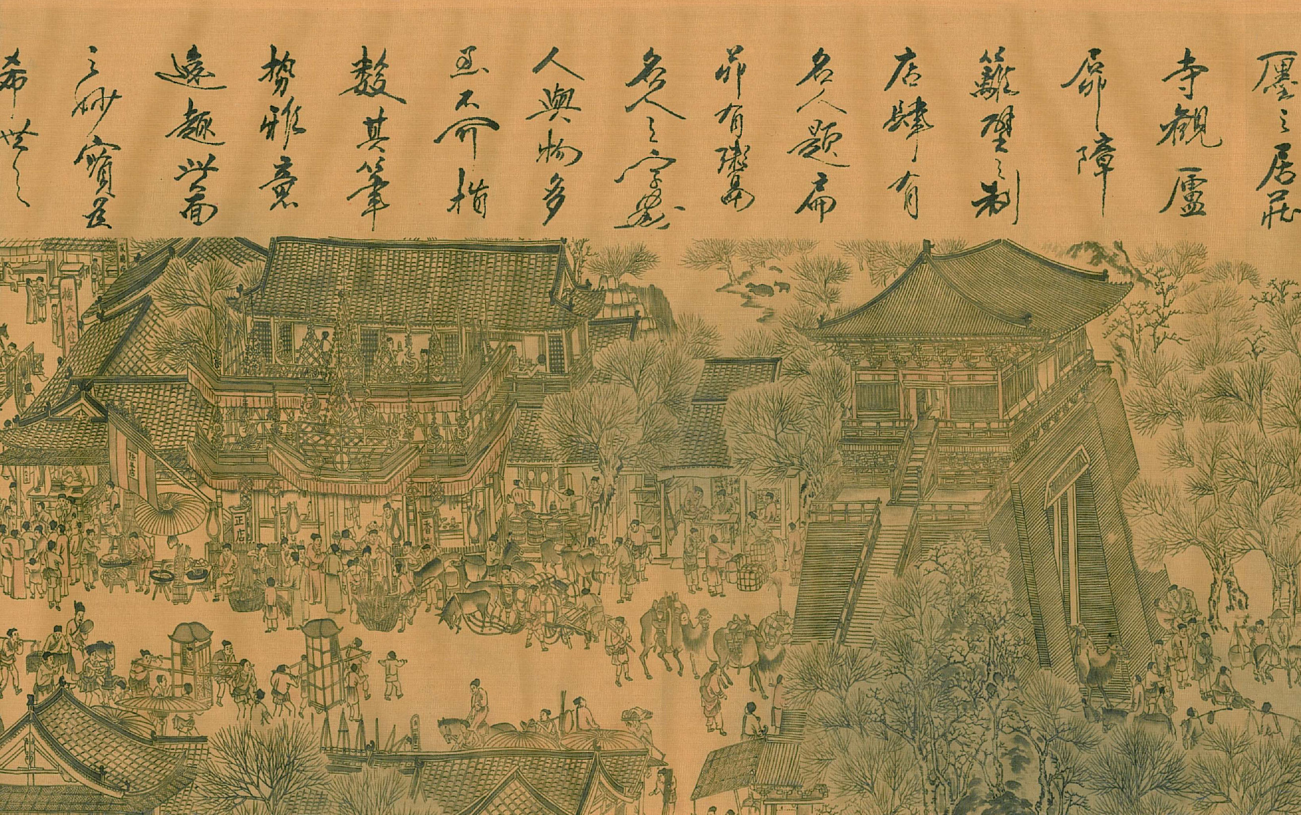 part of the Qingming Scroll (清明上河圖 Qīngmíng shàng hé tú) by the Song-Dynasty Chinese painter Zhang Zeduan (張擇端; Simplified